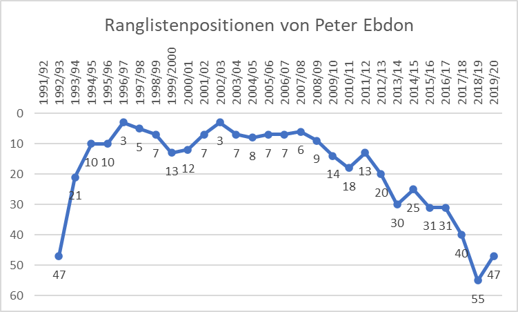 ranking positions of the former snooker world champion Peter Ebdon, data